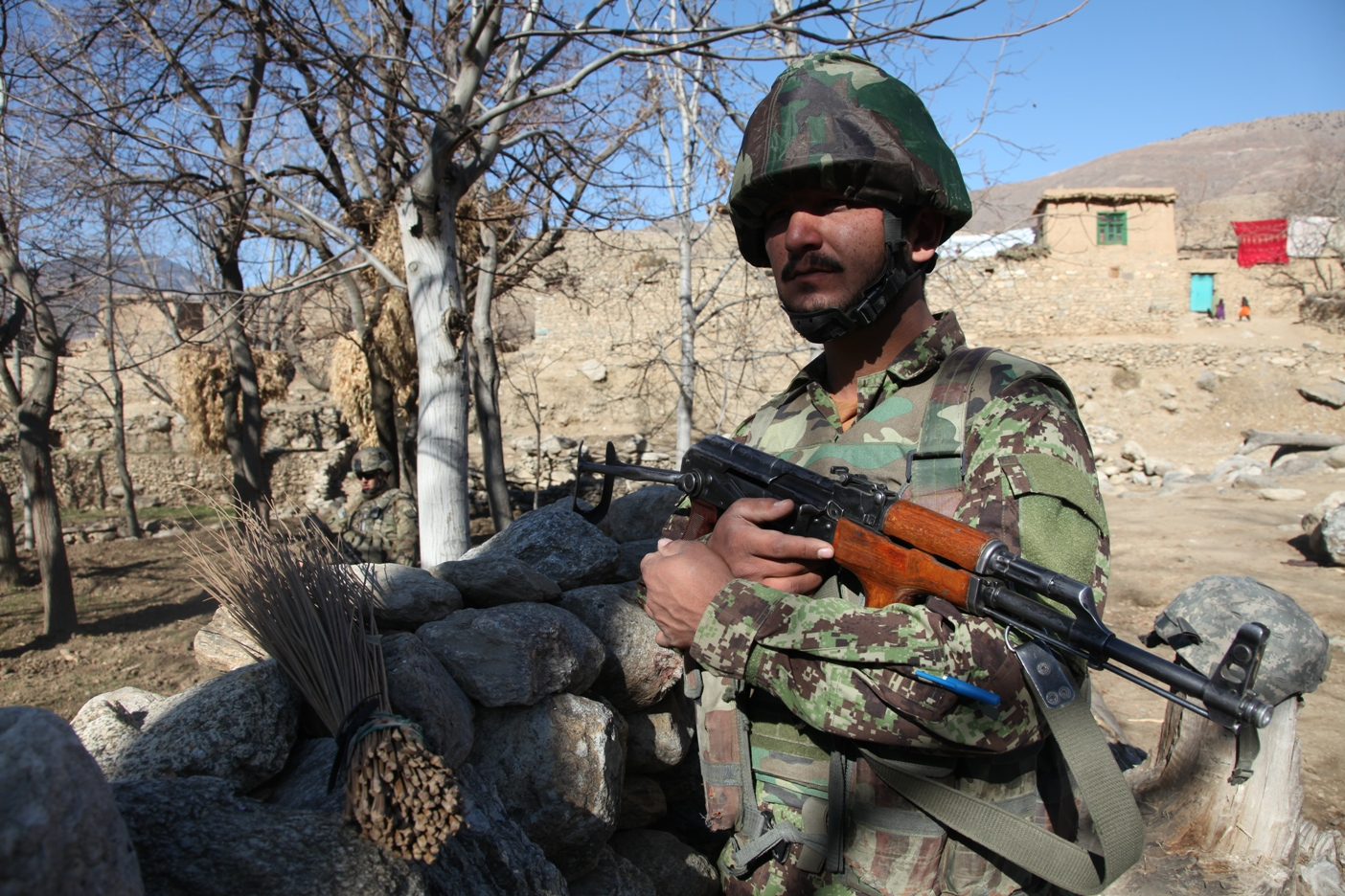 Afghan national army soldier provides security for Gov. Mohammad Iqbal Azizi during a visit to Gomrai village, Laghman province, Afghanistan, Jan. 23, 2011. Azizi visits the village to conduct a shura, or meeting, with village elders. (U.S. Army photo by Spc. Kristina Gupton/Released)